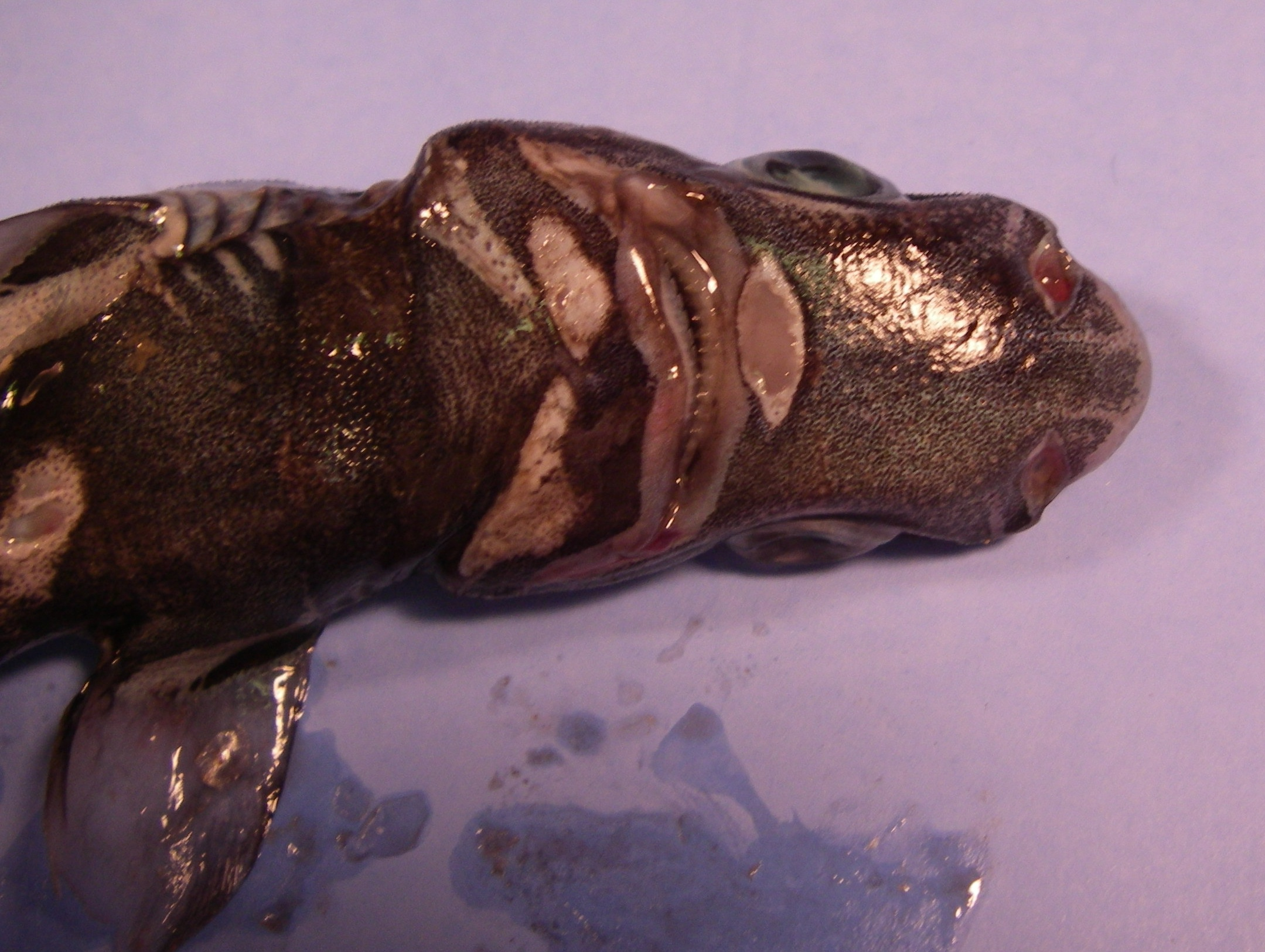 Green lanternshark (Etmopterus virens) from Gulf of Mexico